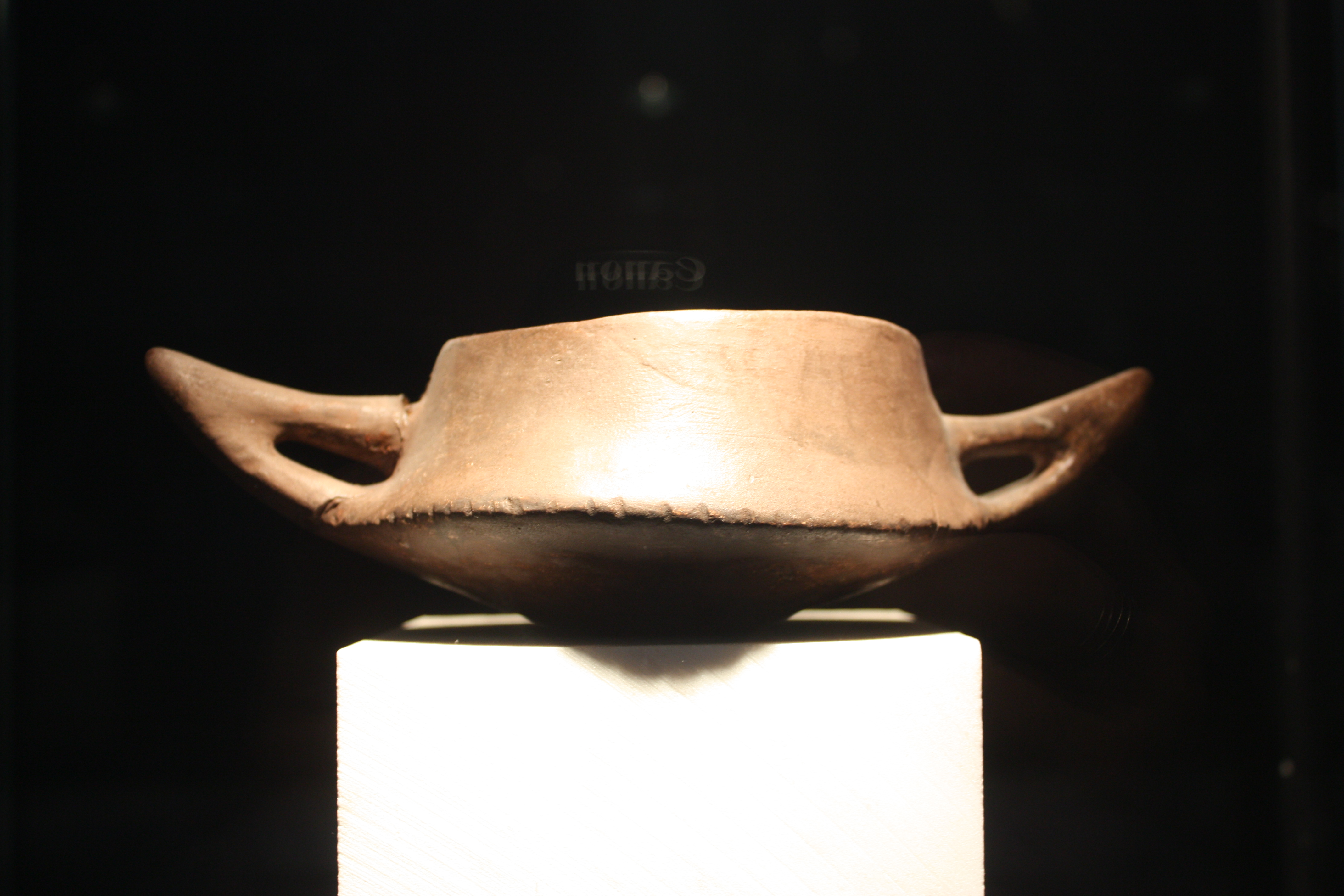 An artefact in the Archaeological section of the Museum of Skopje, Macedonia